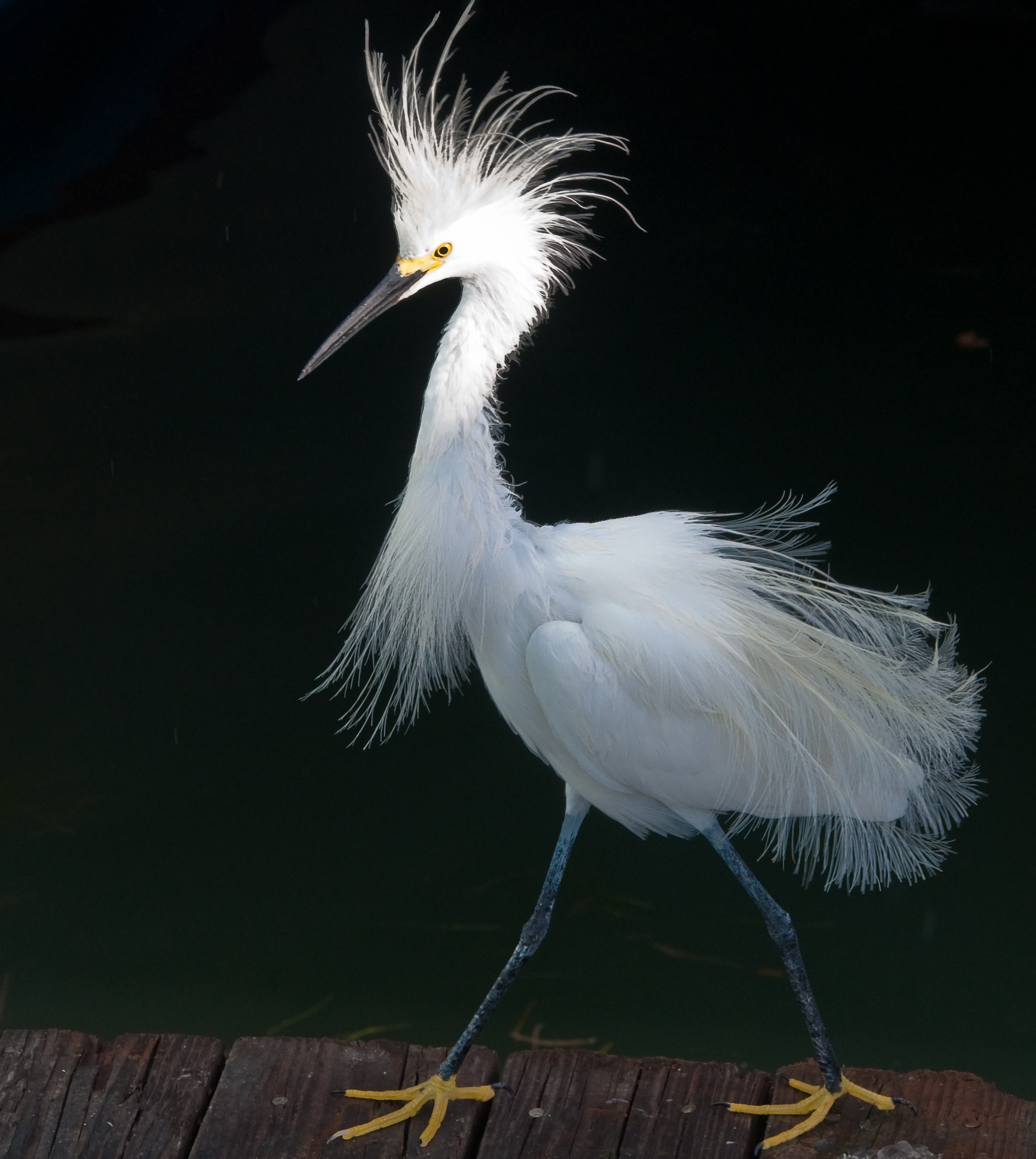 Photo of a snowy egret with full plume walking on a pier.